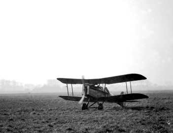 Western Front (France), Nord Region (France), Lille. 16 November 1918. An SE5A aircraft of the 2nd Squadron, Australian Flying Corps, effecting a landing near Lille.